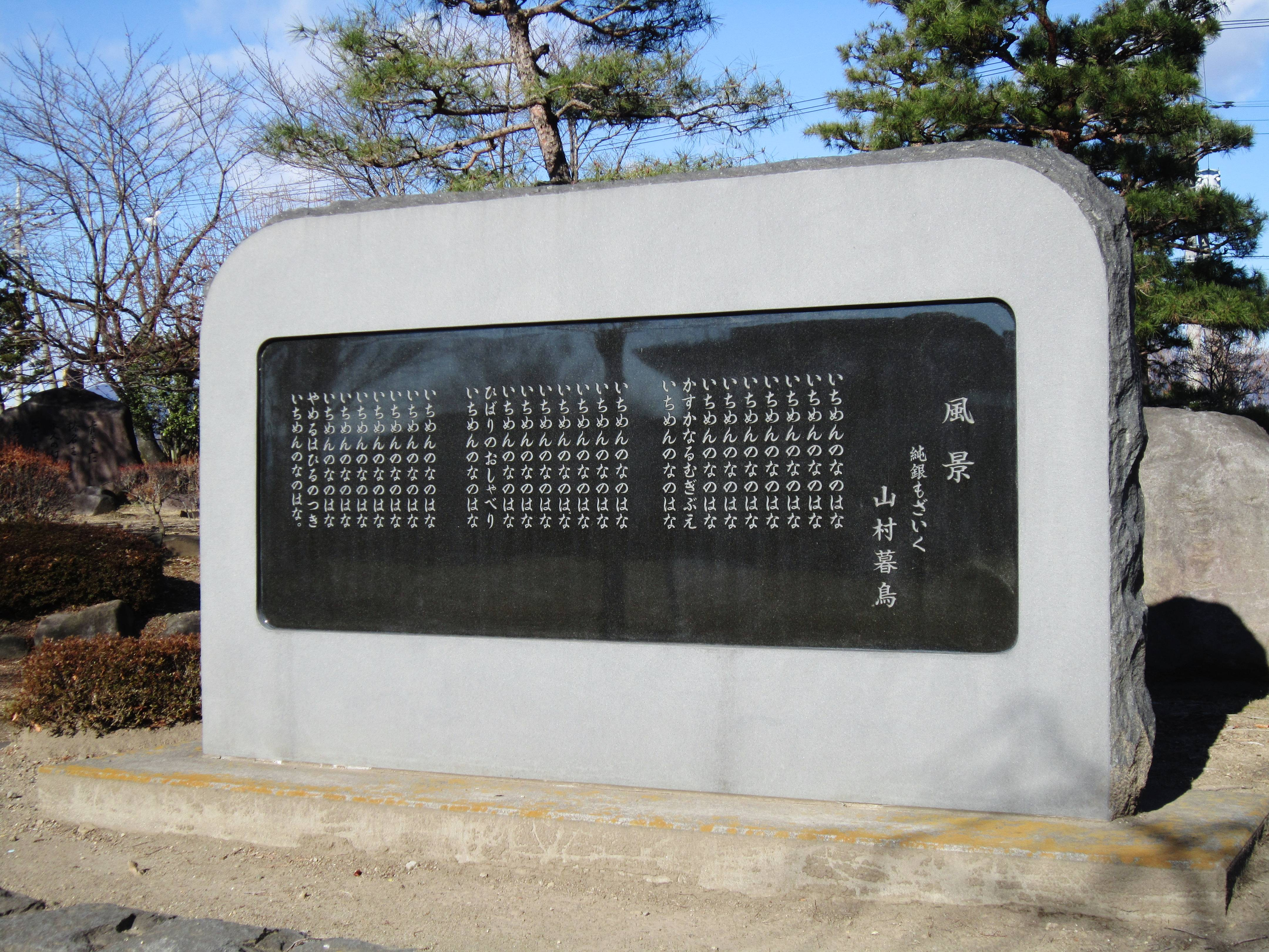 Kamitsukenu Haniwano-sato Park Bochō Yamamura monument.